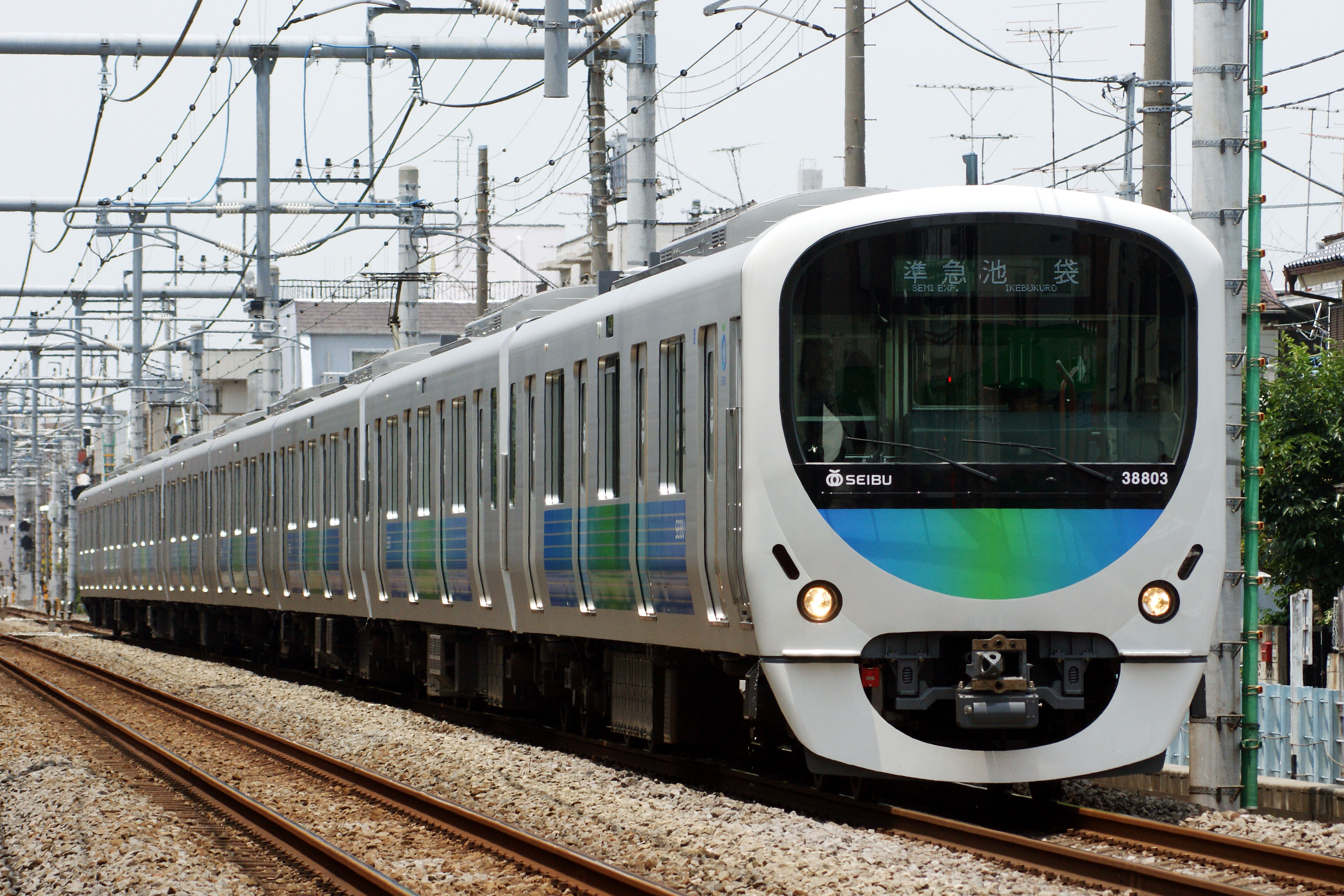 Seibu Railway 30000 series EMU 8-car set 38103 on a Seibu Ikebukuro Line service